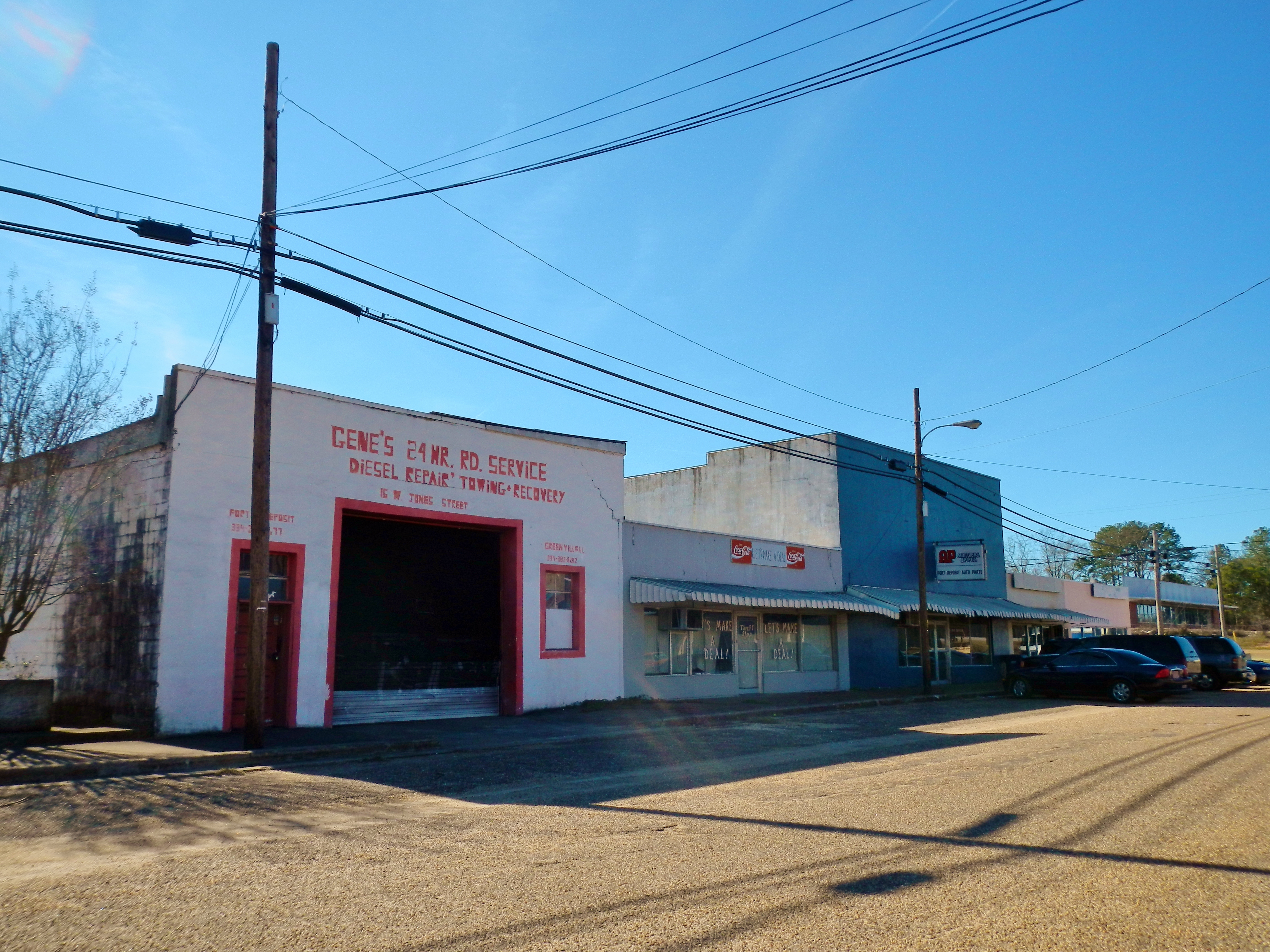 This is a photograph of Fort Deposit, Alabama in Lowndes County.